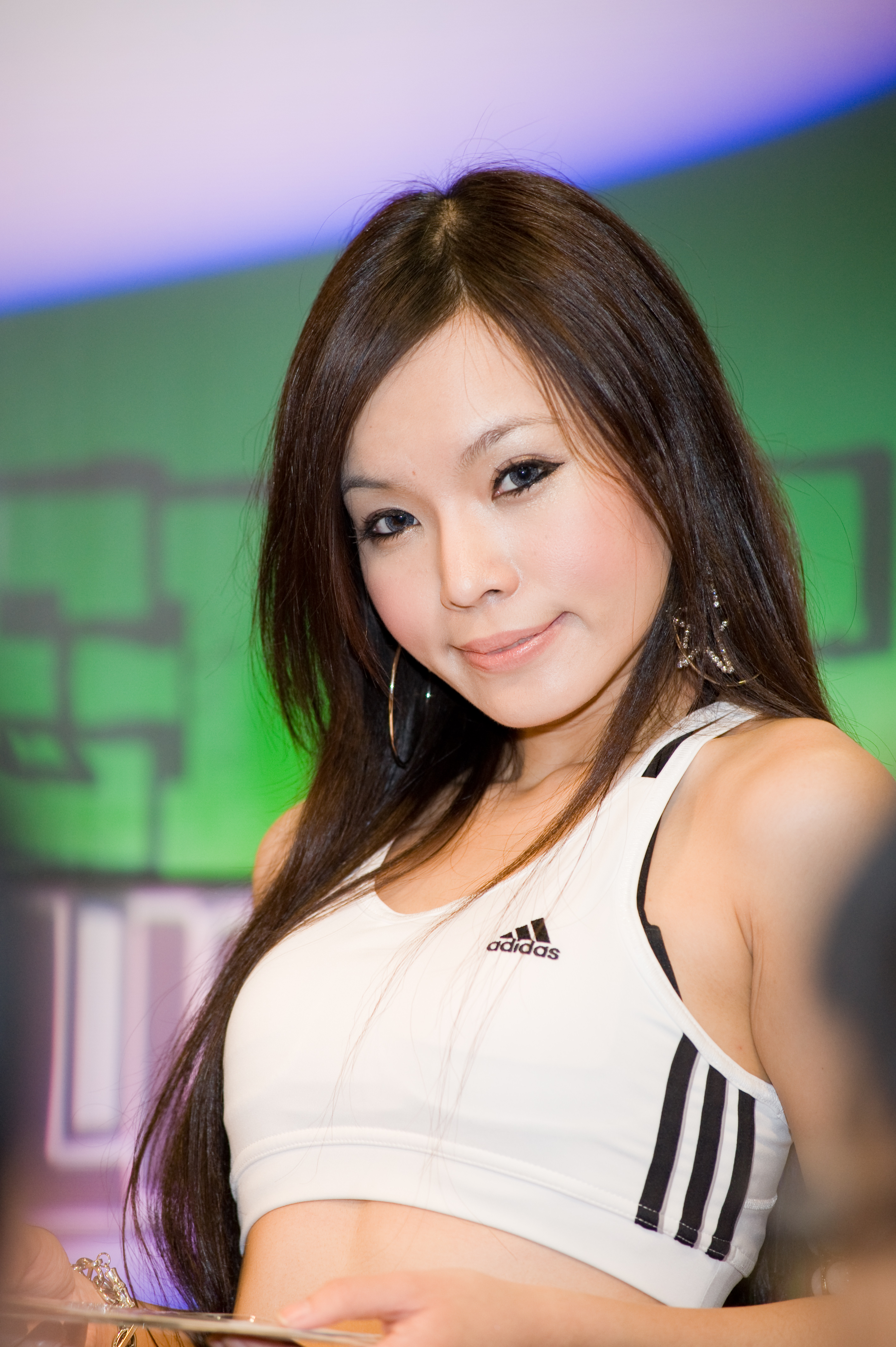 A female promotional model in 2008 Taipei Game Show wearing Adidas white sports bra.